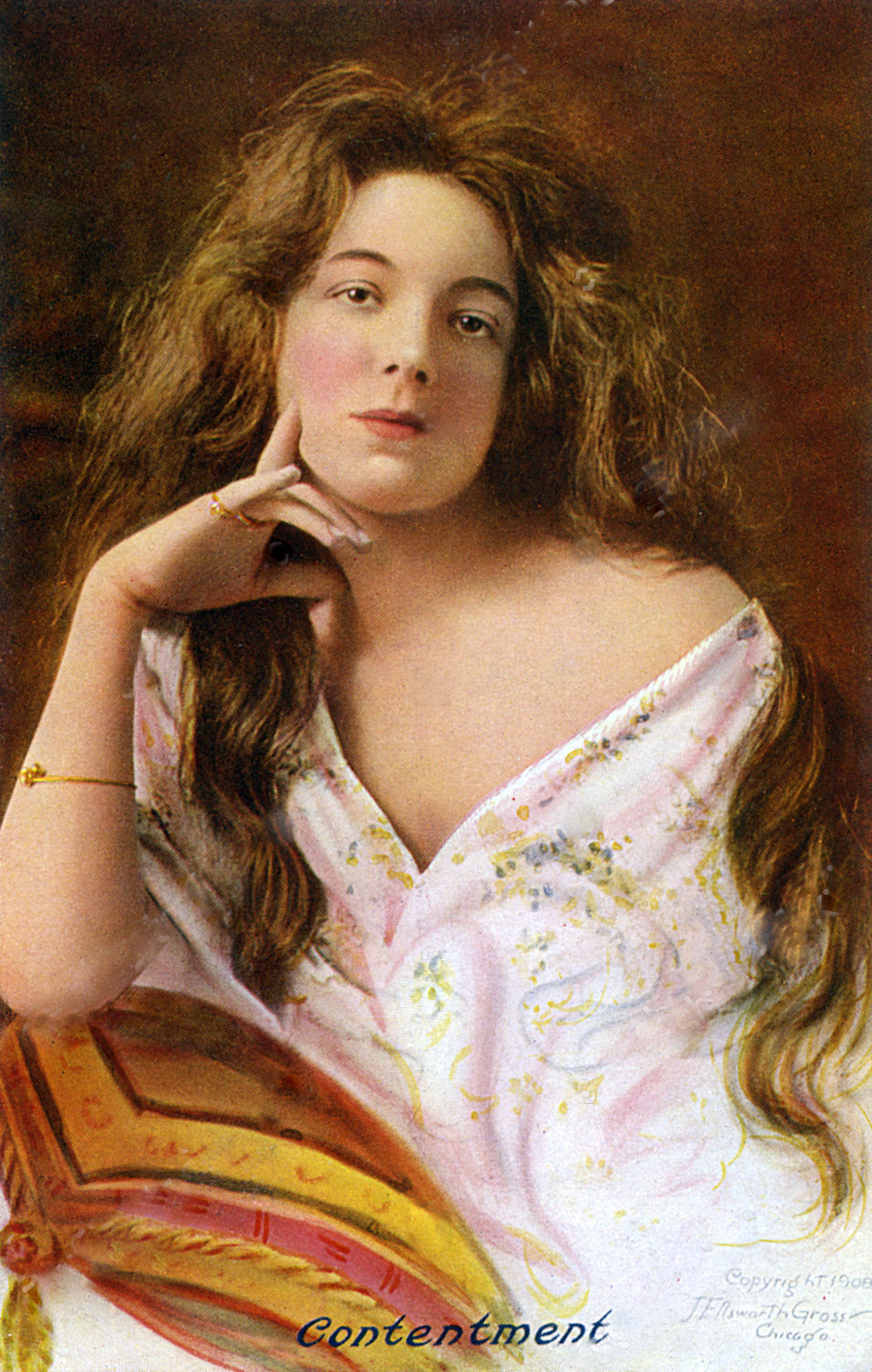 "Contentment - A Slightly Dishevelled, Yet Happy, Young Lady"